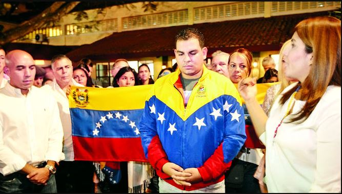 Oscar Tellechea en panama